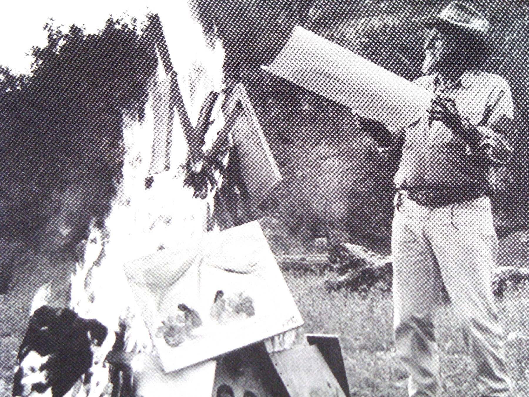 Ted, protesting the inheritance tax, burned several hundred originals in the Superstition Mountains circa. 1976